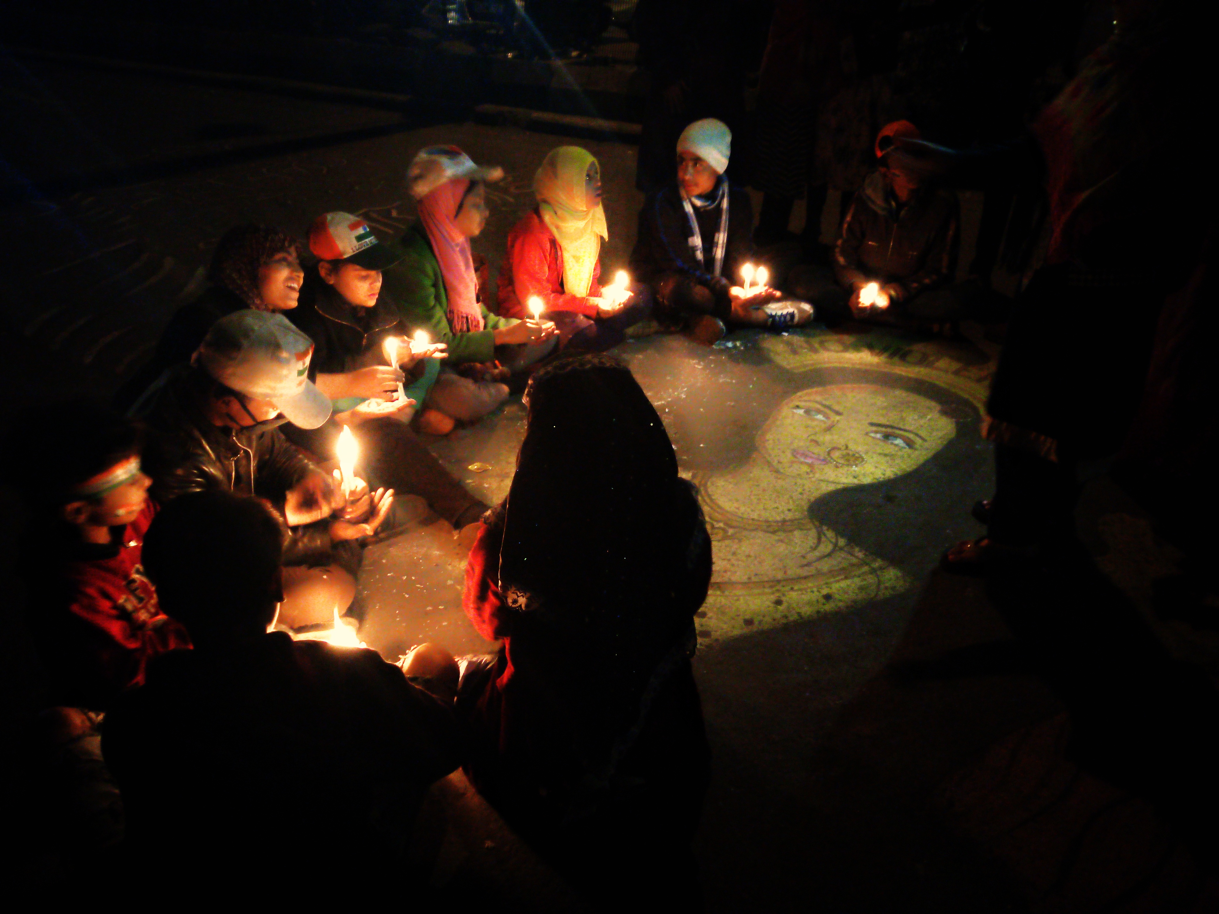 Children demonstrating sit-in protest against the CAA-NRC holding candles sitting around a grafitto at Shaheen Bagh.